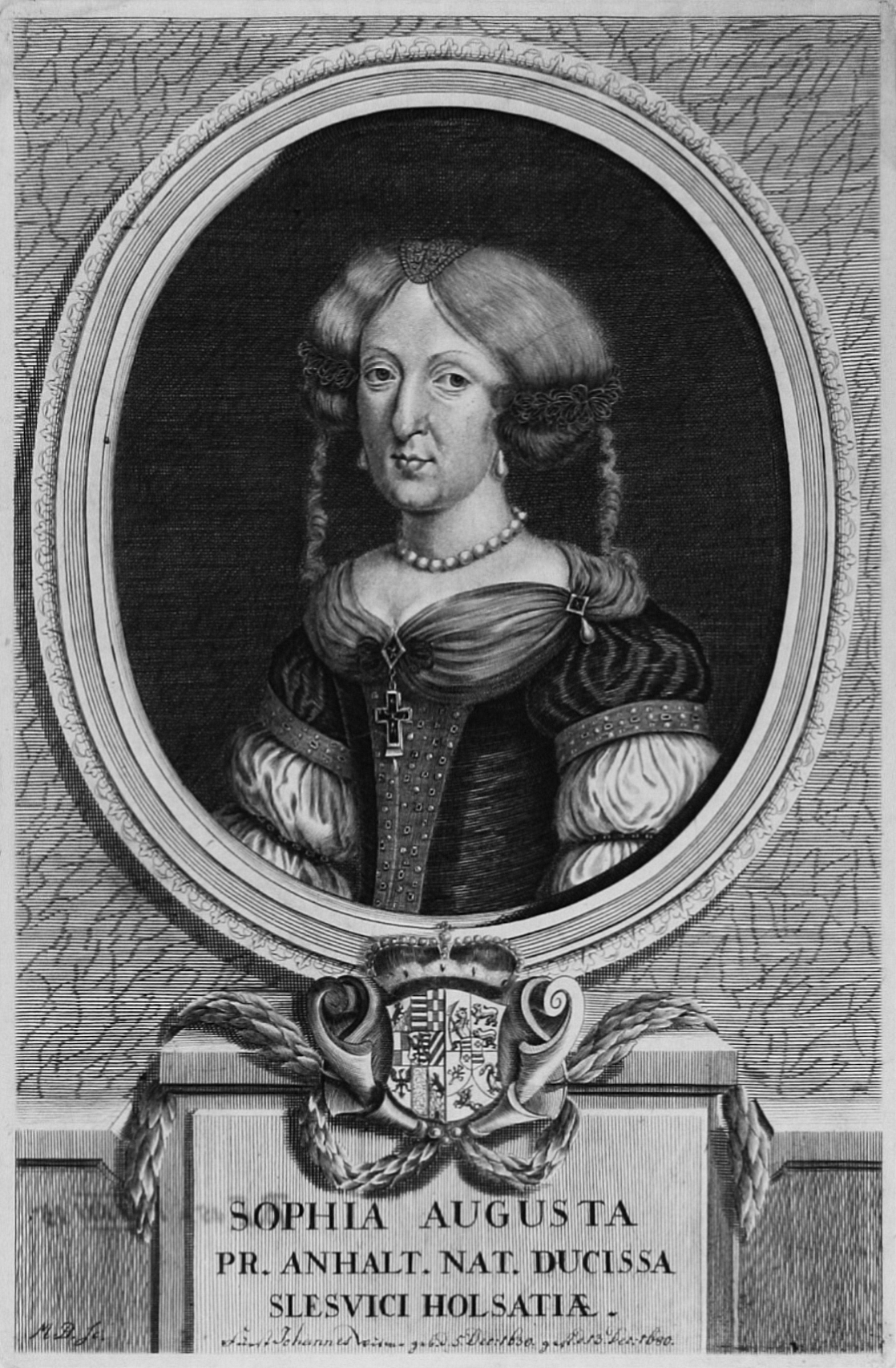 "SOPHIA AUGUSTA PR.ANHALT. NAT. DUCISSA SLESVICI HOLSATIA ." - Sophie Auguste von Anhalt-Zerbst (1630-1680)